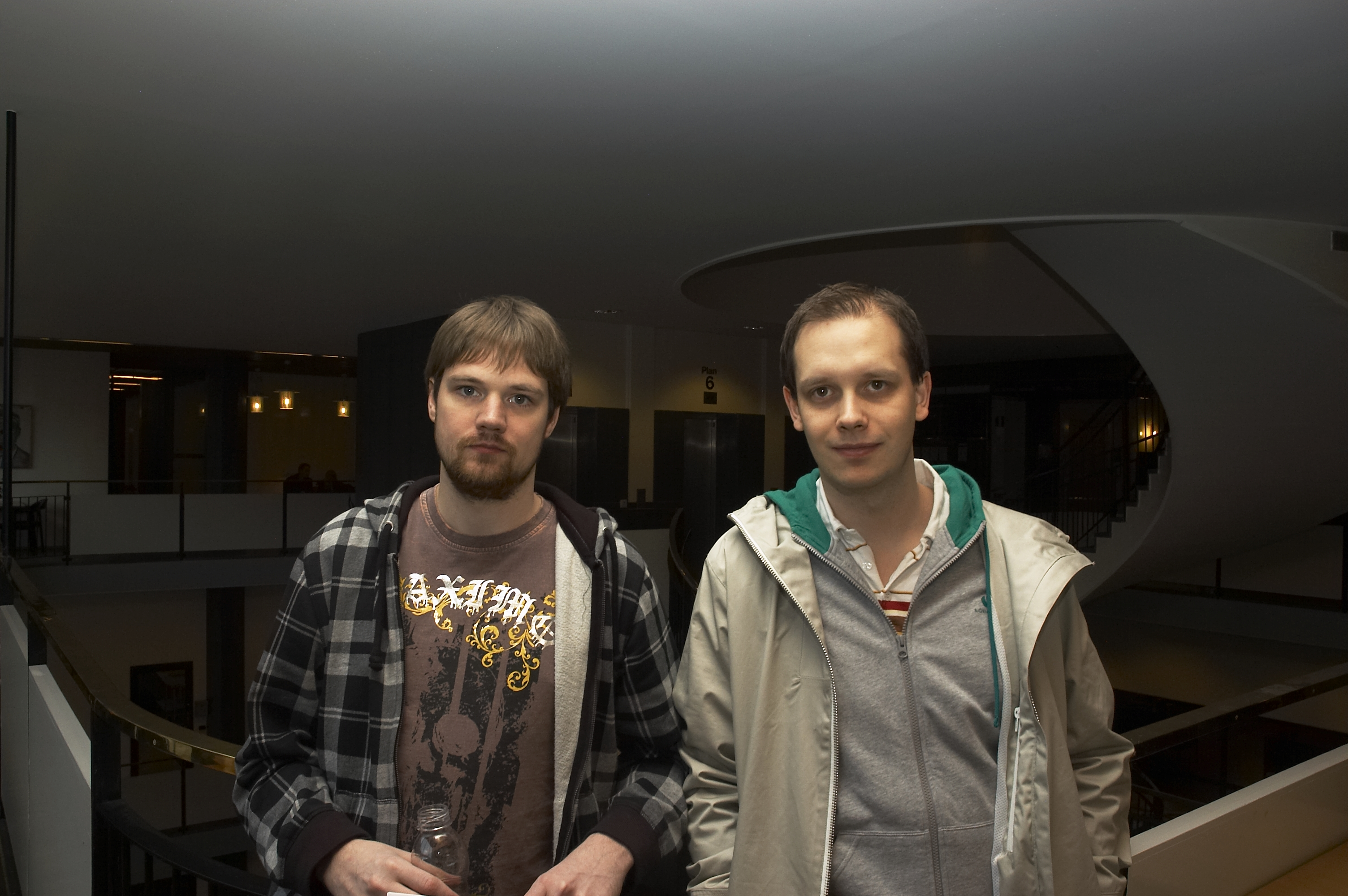 Fredrik Neij and Peter Sunde during TPB trial.